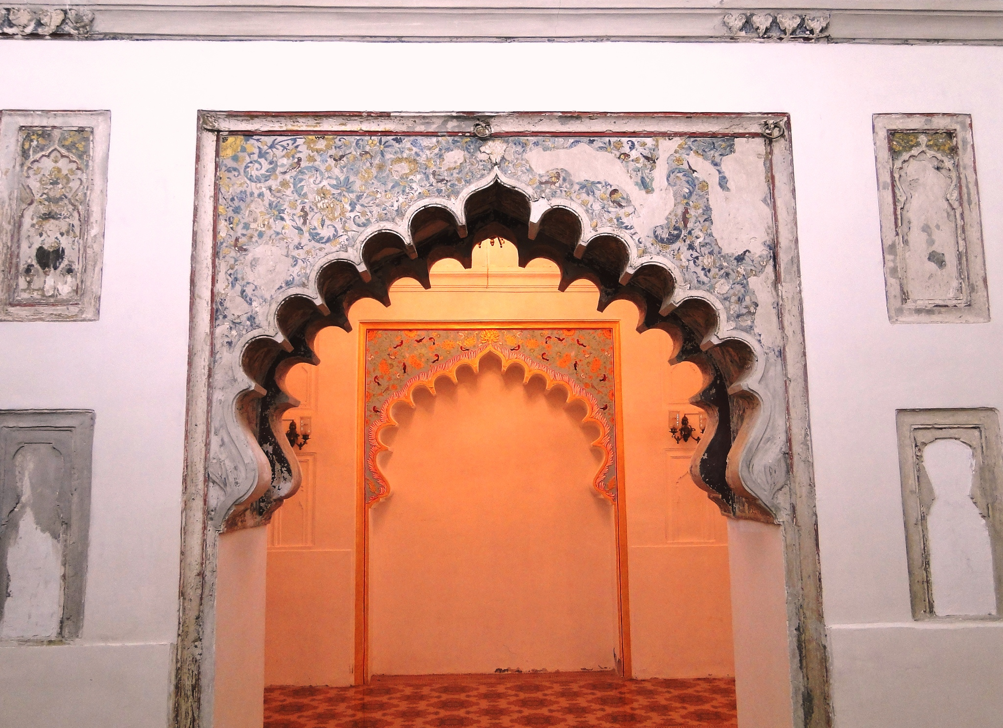 Soneri Mahal Painting, Aurangabad, Maharashtra, India